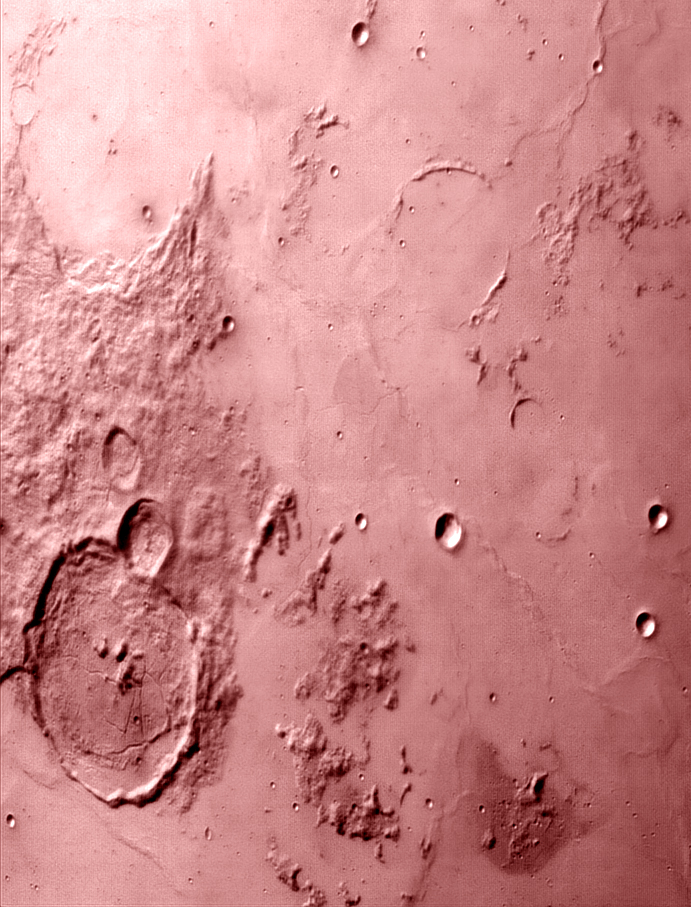 Gassendi, on the Moon. Infrared image in L band centred on 3.75 micrometres. Taken with the SIRCA camera by M. Gålfalk, G. Olofsson, and H.-G. Florén. Nordic Optical Telescope, Stockholm Observatory. More images can be found here.